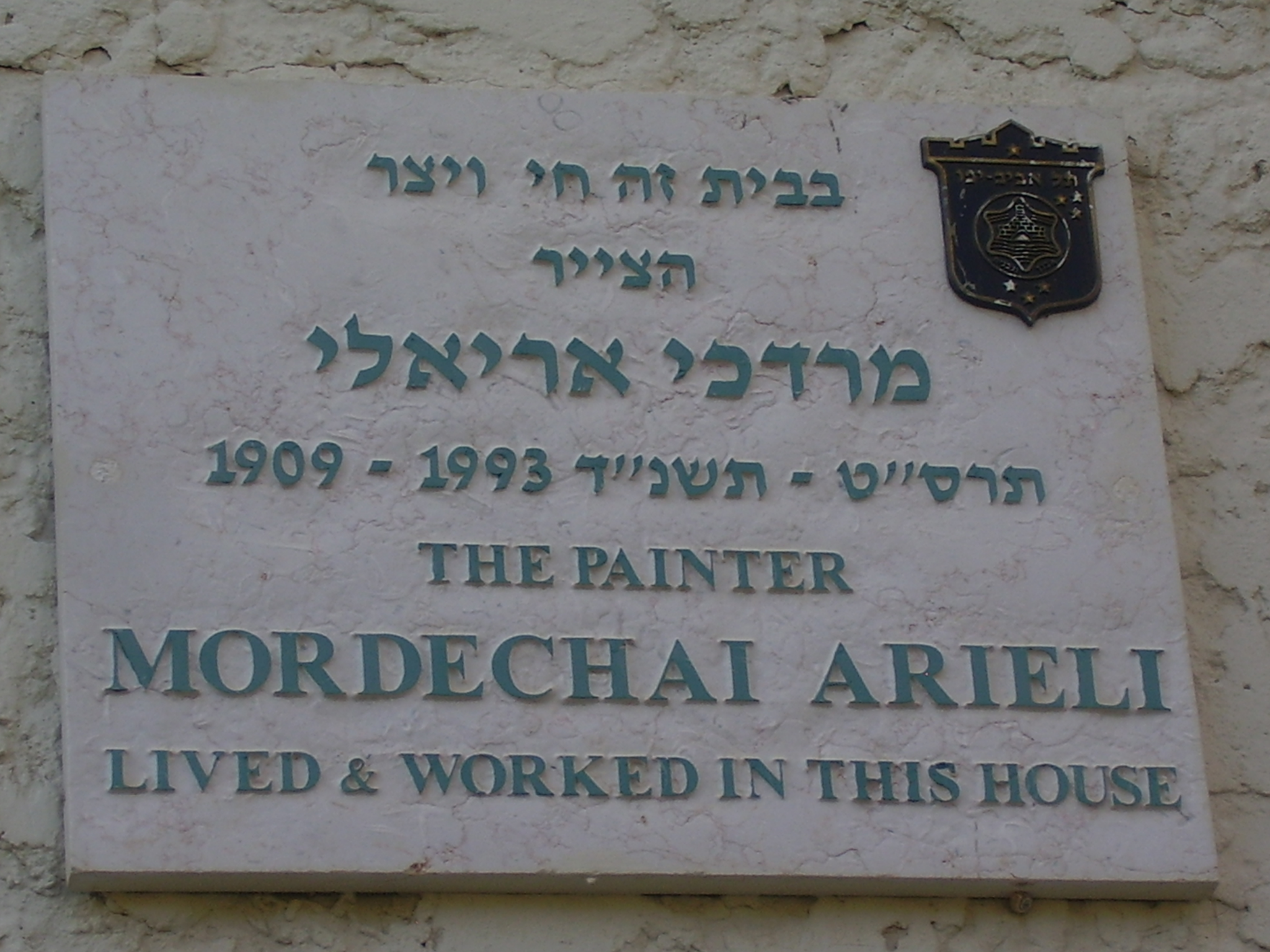 memorial plaque to the painter mordechai arieli in tel aviv לוחית זיכרון לצייר מרדכי אריאלי ברח' קרני 8 בתל אביב